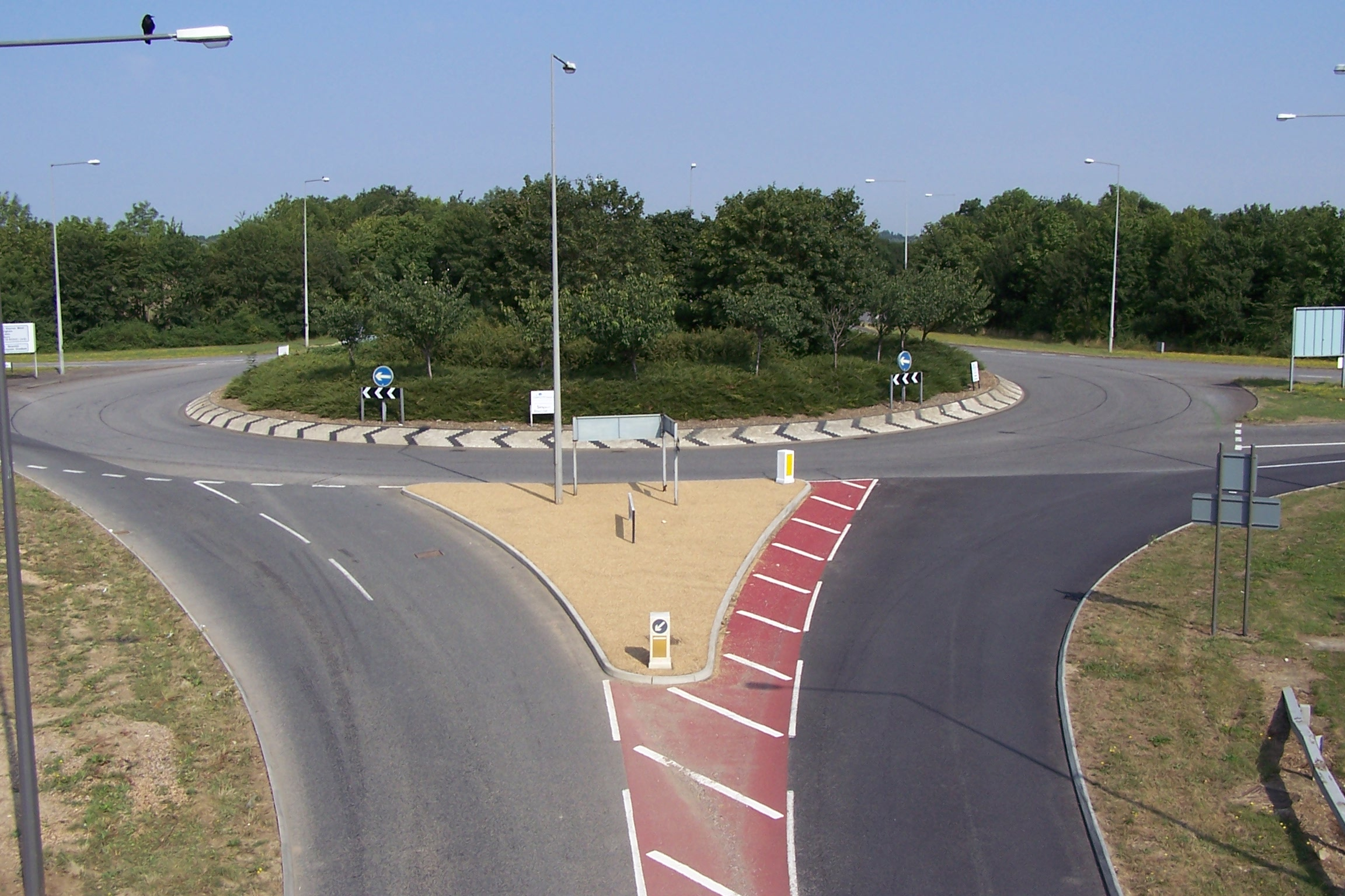 Roundabout by Ashland in Milton Keynes